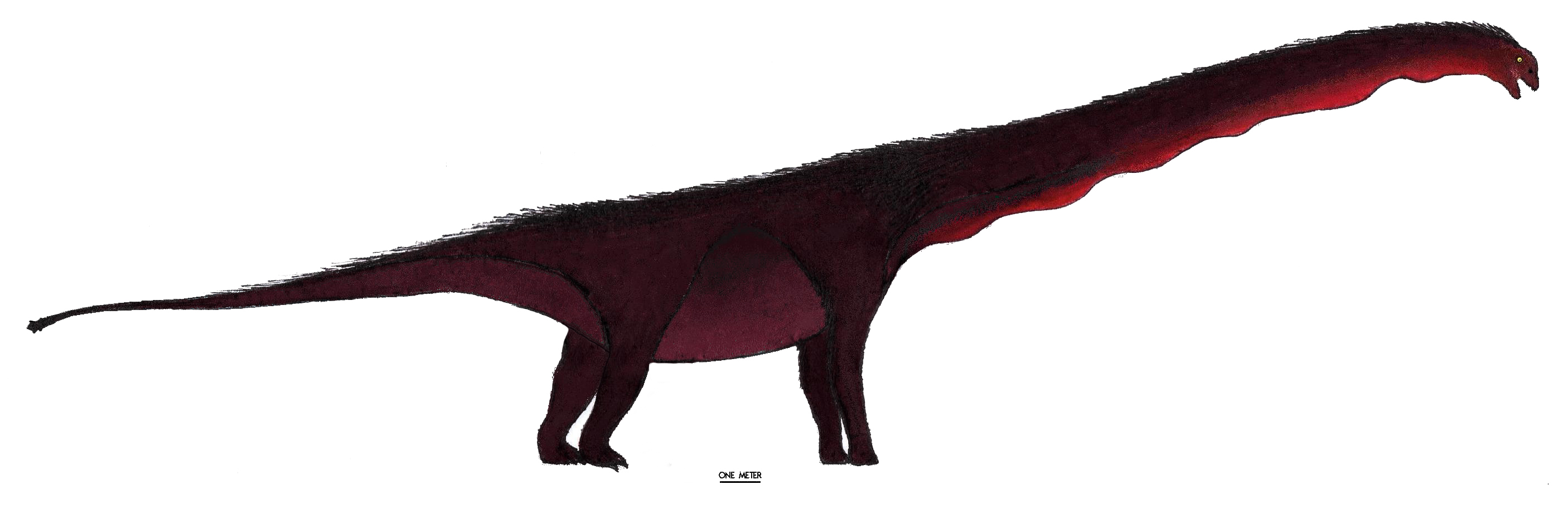 Xinjiangtitan life restoration